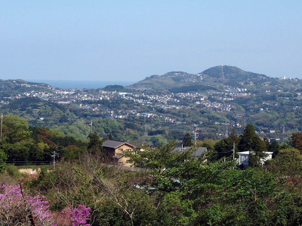 Mount Komuro (Komuro-yama) as seen from the west in Ito, Shizuoka Prefecture, Japan, which a one of the cinder cones of Izu-tobu Volcano Group.